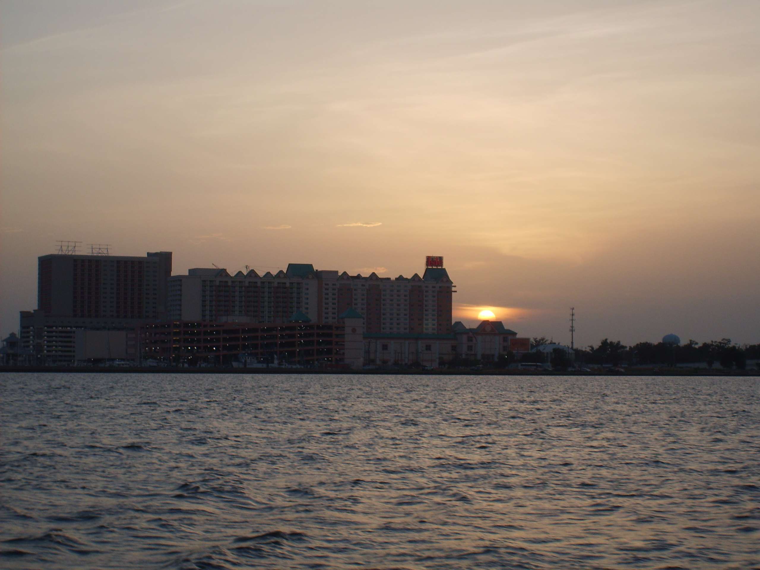 Biloxi at night from the water